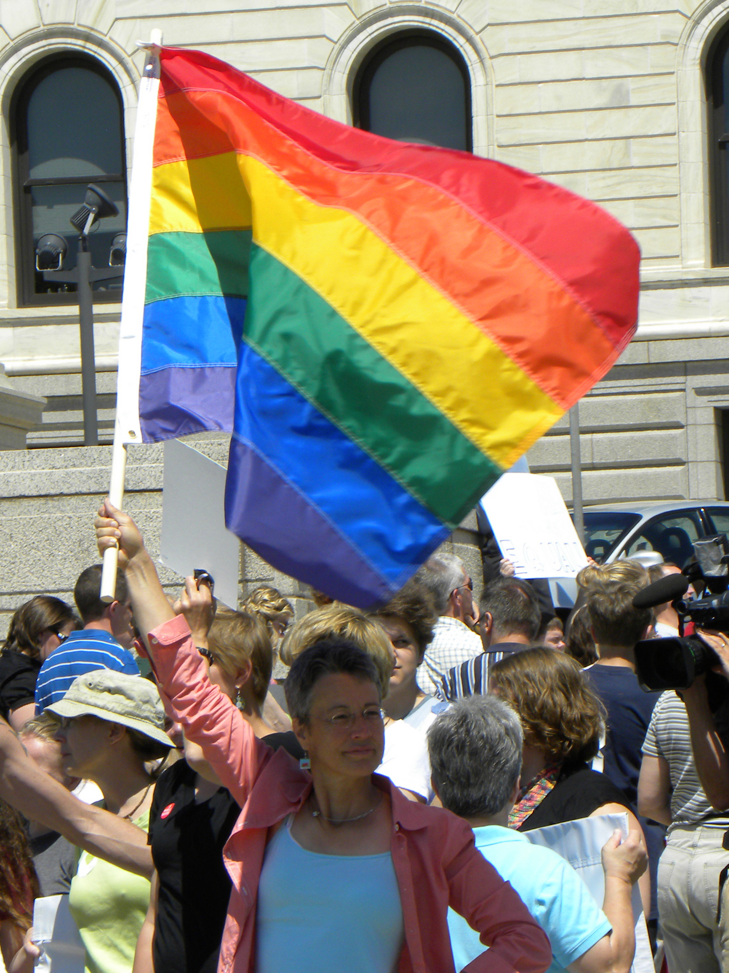 St. Paul, Minnesota July 28, 2010 People gathered in the St. Paul capitol building in support of equal rights for lesbian, gay, bisexual and transgender people including the right of same-sex couples to marry. Then they went outside to counter-protest the rally against same-sex marriage outside. Fibonacci Blue 2010-07-28